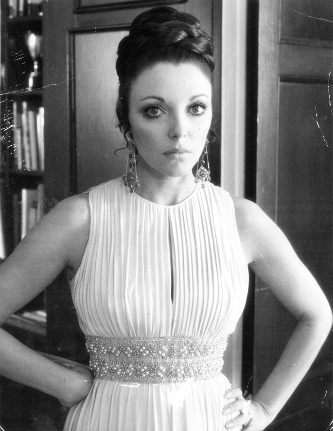 Joan Collins in Drive Hard, Drive Fast (1973